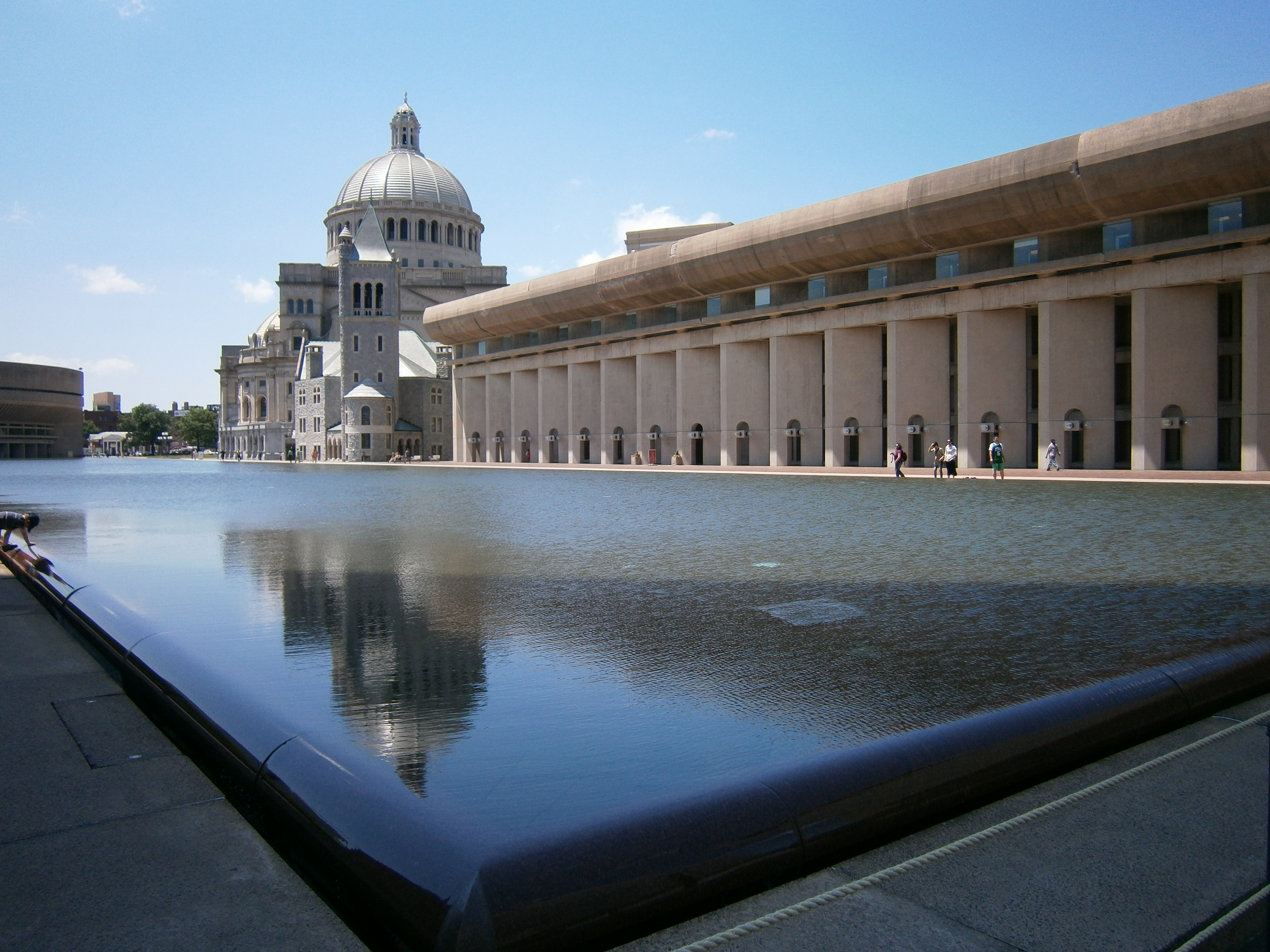 Christian Science Center in Boston, Massachussetts. The domed building in the distance is the First Church of Christ, Scientist (1906). The reflecting pool and colonnade were built in the 1960s based on a design by Araldo Cossutta of I. M. Pei & Associates.